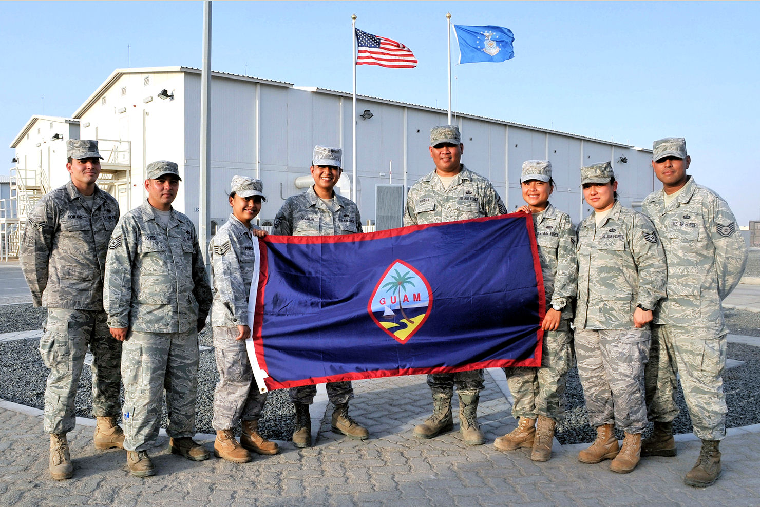 254th Force Support Squadron - Al Dhafra Air Base, United Arab Emirates. Nine deployed members of the 380th Expeditionary Force Support Squadron deployed from the Guam Air National Guard's 254th Force Support Squadron at Anderson Air Base, Guam, are serving up 30-mile wide smiles, the length of the island where they hail from, and sharing their island ways with the 1,900 Airmen, Soldiers and Sailors who are deployed to the 380th Air Expeditionary Wing in Southwest Asia. (Photo by Capt. Cathleen Snow, 380th Air Expeditionary Wing)